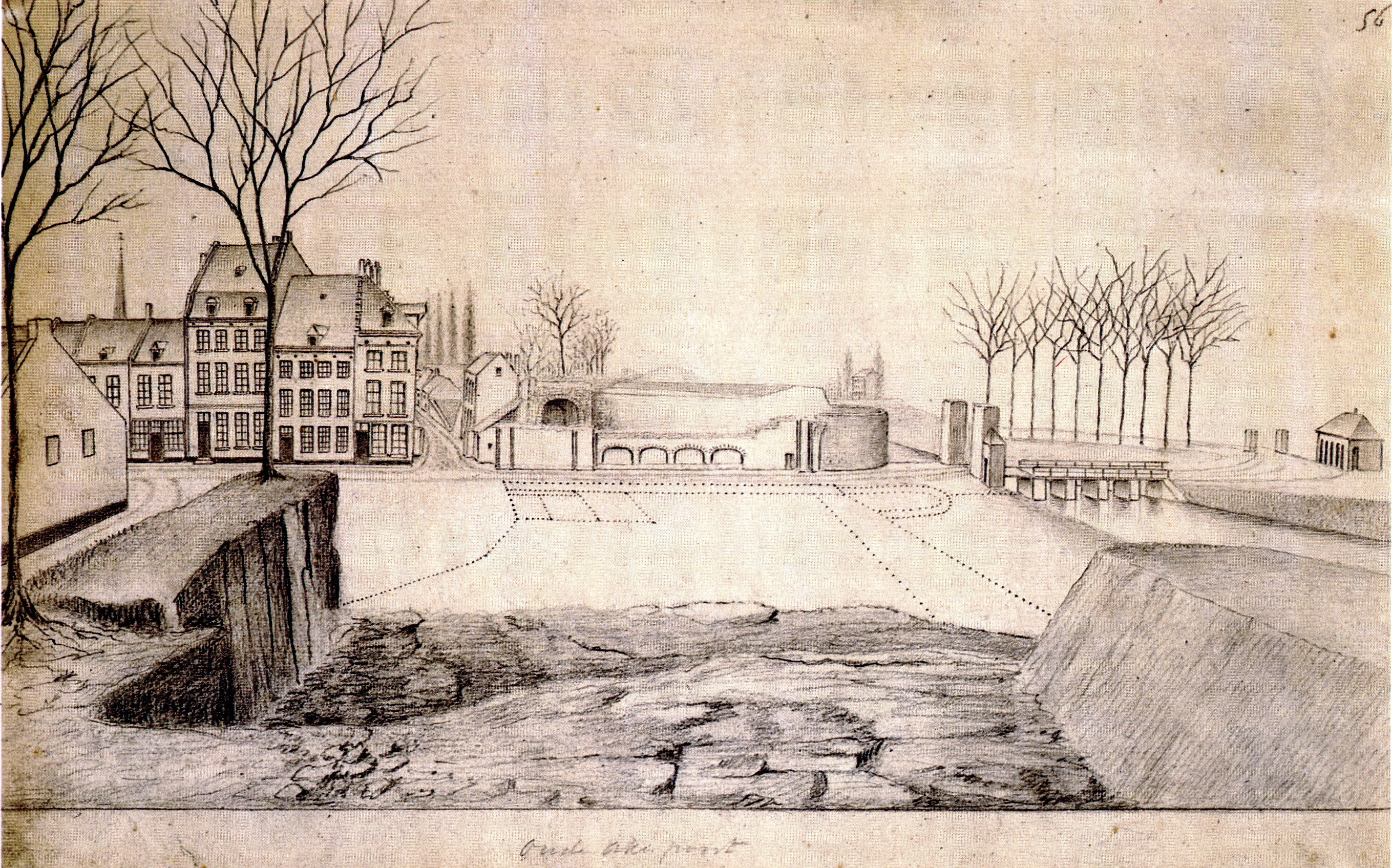 Maastricht, the Netherlands. Demolition of Duitse Poort ("German Gate") in 1869-'70. Drawing by Jan Brabant in the LGOG collection of the Bonnefantenmuseum, Maastricht.